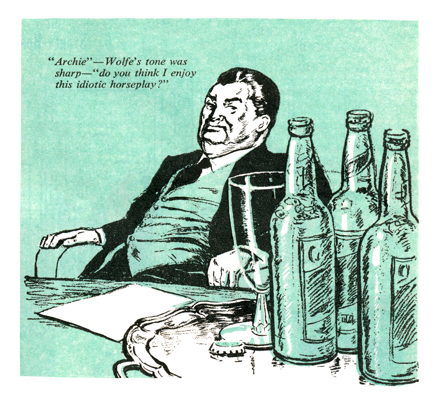 Illustration for "Help Wanted, Male", a Nero Wolfe story by Rex Stout that first appeared in The American Magazine